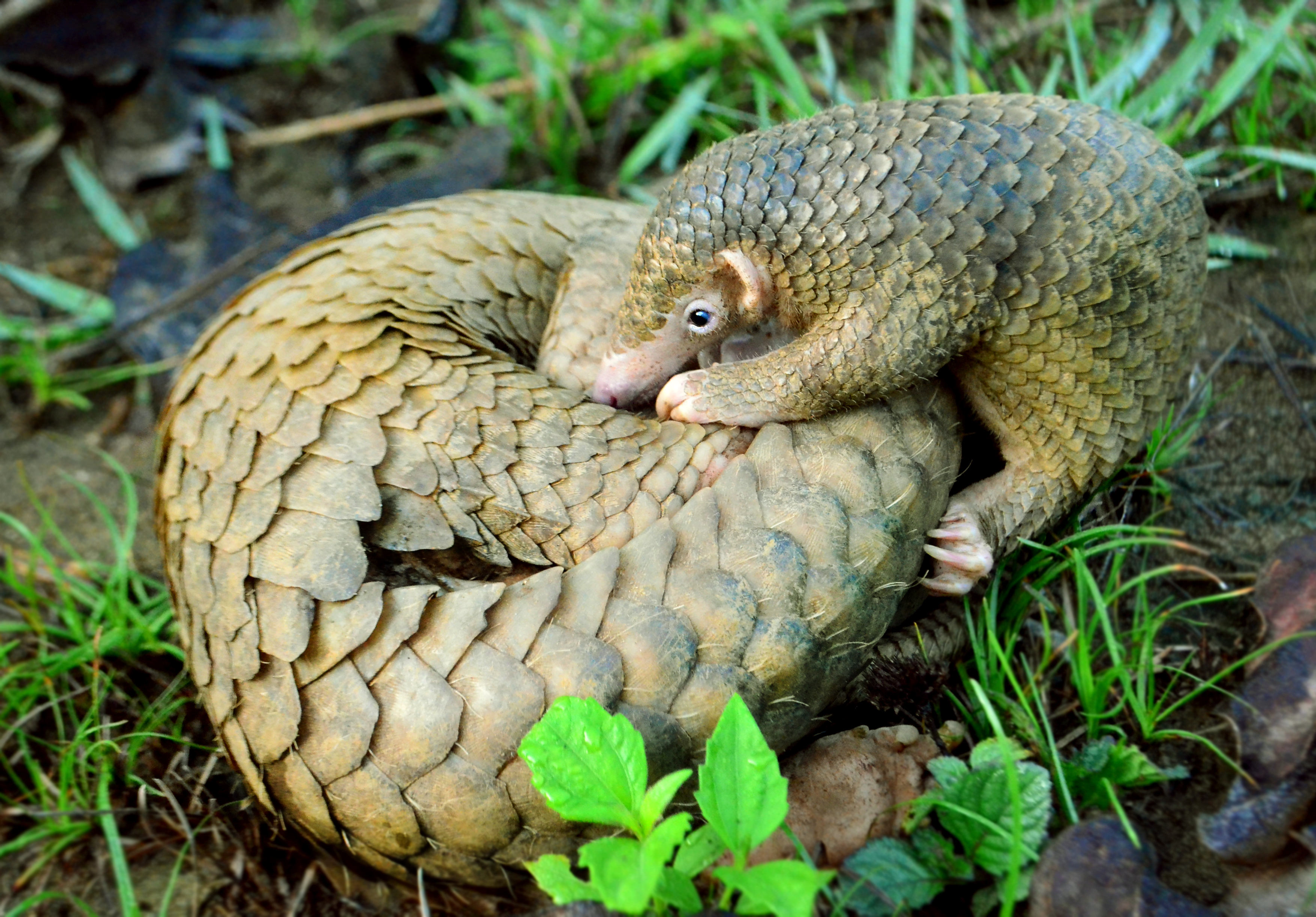 A Philippine Pangolin pup nudges its mother, rolled up in a protective ball. Photographed in the forests of Palawan.